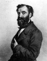 Contemporary portrait of Italian composer Matteo Salvi (1816-1887), circa 1850.